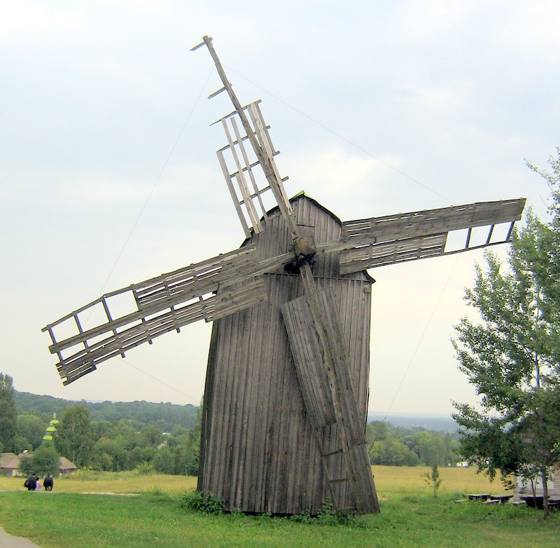 Windmill, Museum of Folk Architecture and Ethnography, Pirogiv near Kiev